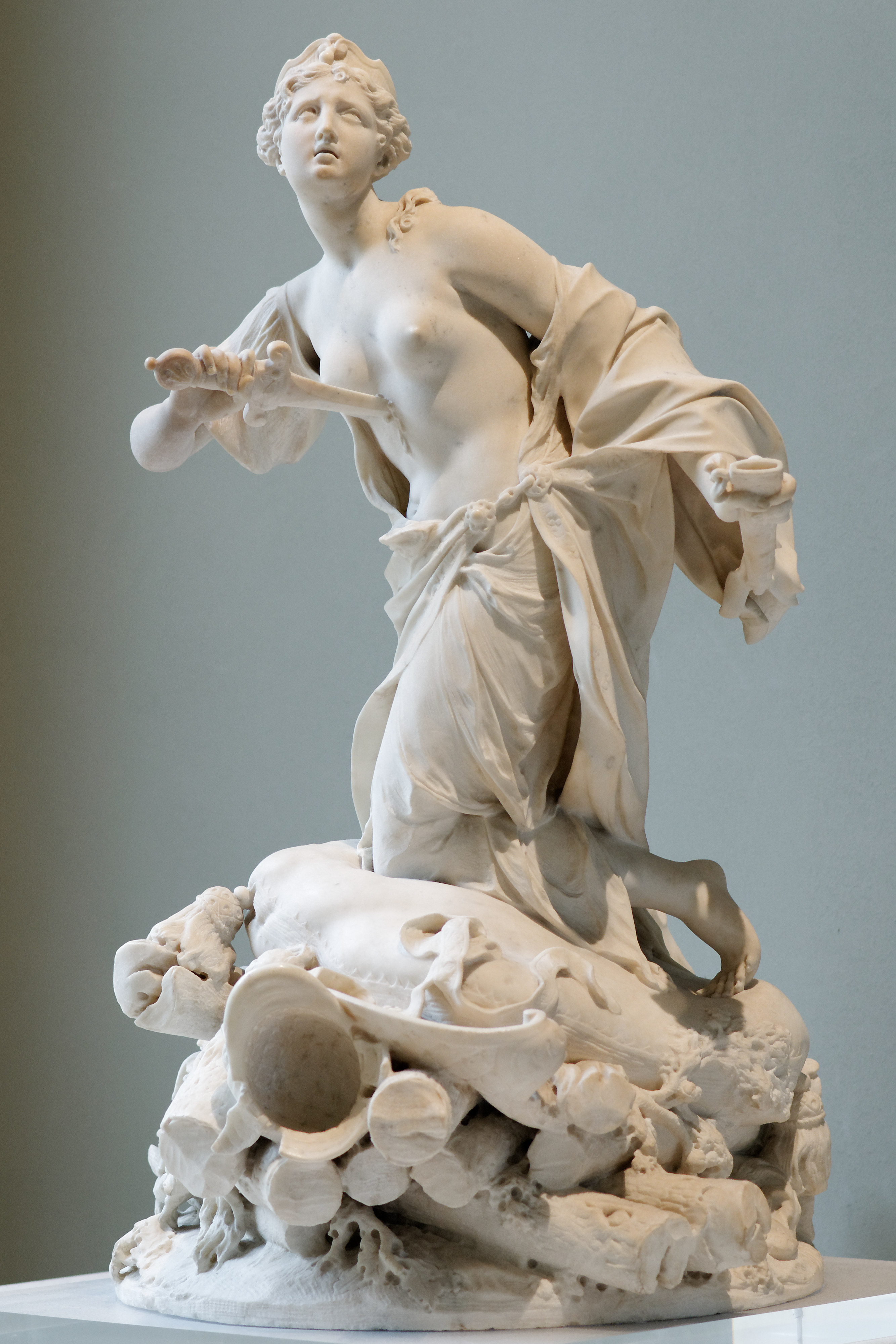 Reception piece for the French Royal Academy.